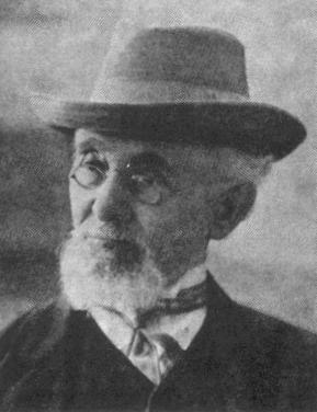 Portrait of Mendele Mocher Sefarim